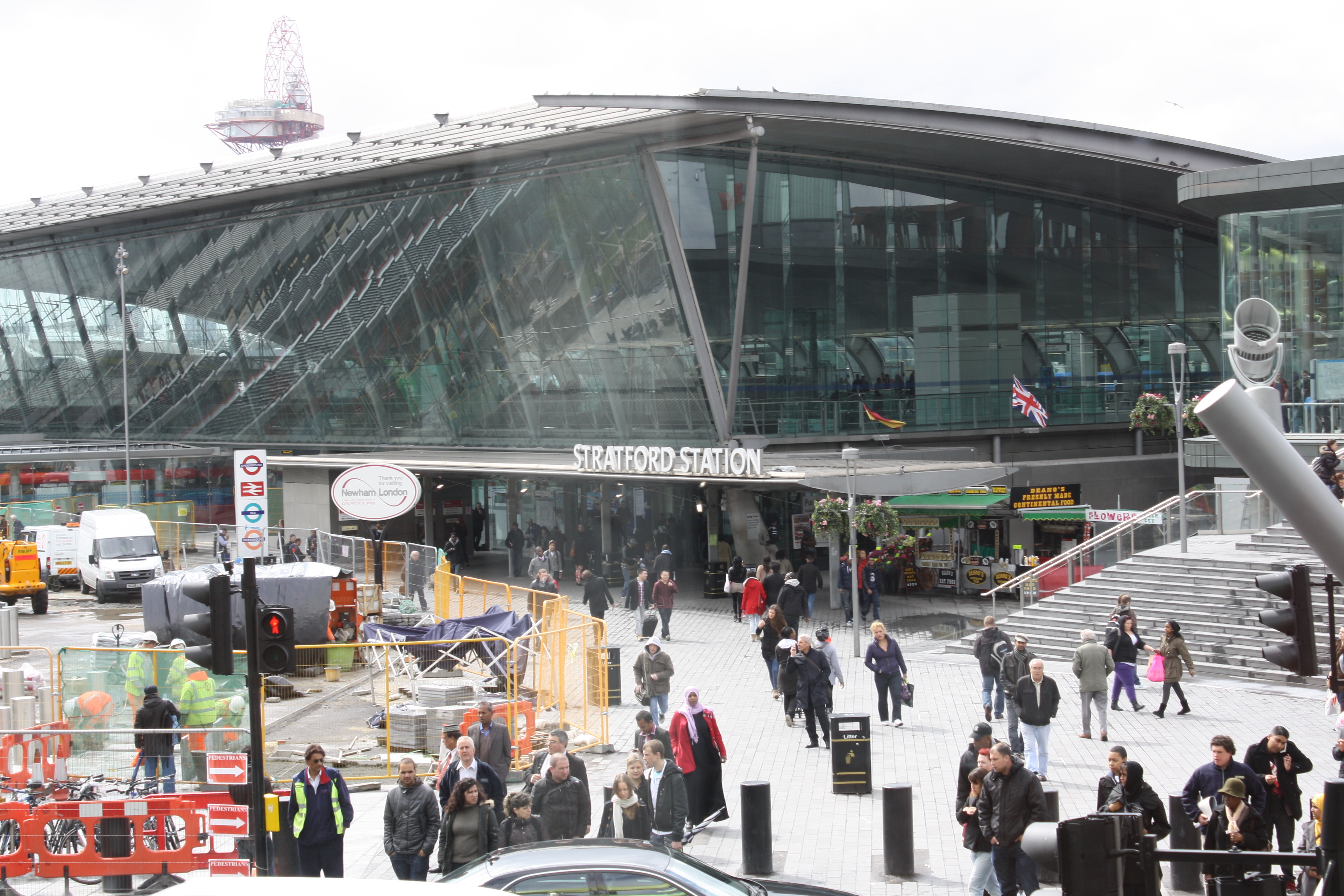 The outside of Stratford Station in London on the 26th April 2012